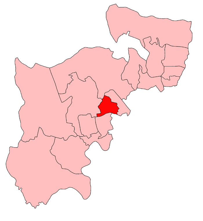 A map of Willesden West constituency within Middlesex, as it existed from 1918 to 1945.